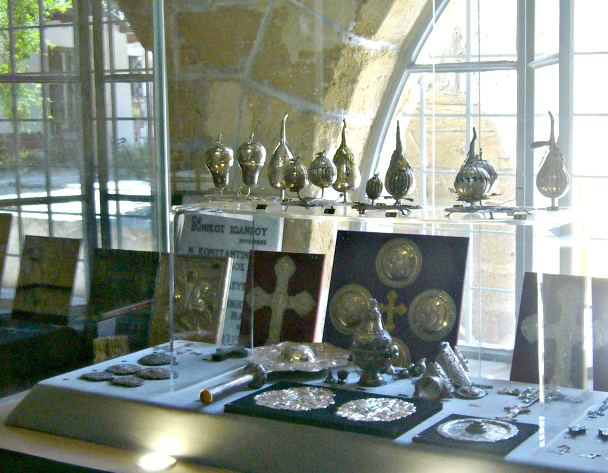 Exhibition at the Museum of Folk Art in Nicosia